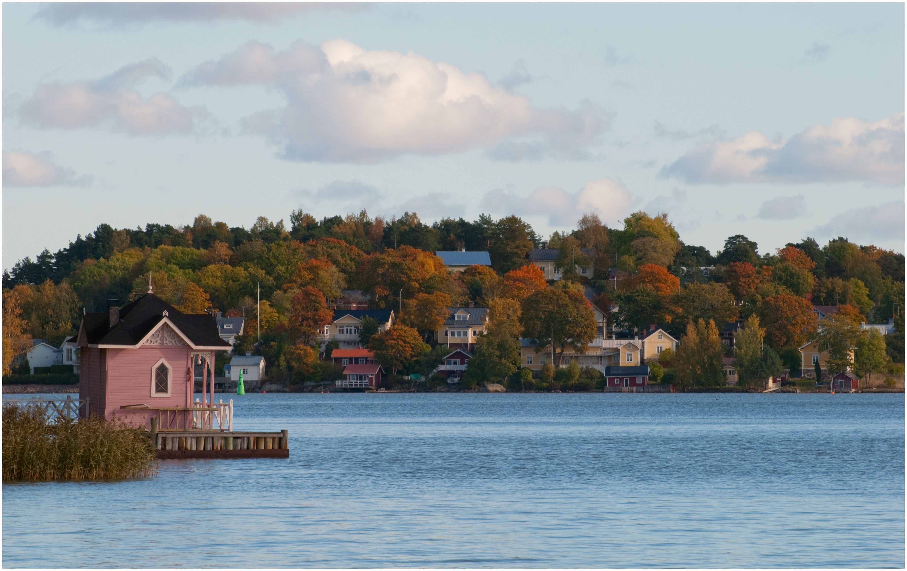 Autumn colours in Pikisaari, Hirvensalo Island, seen from Ruissalo, Turku, Finland